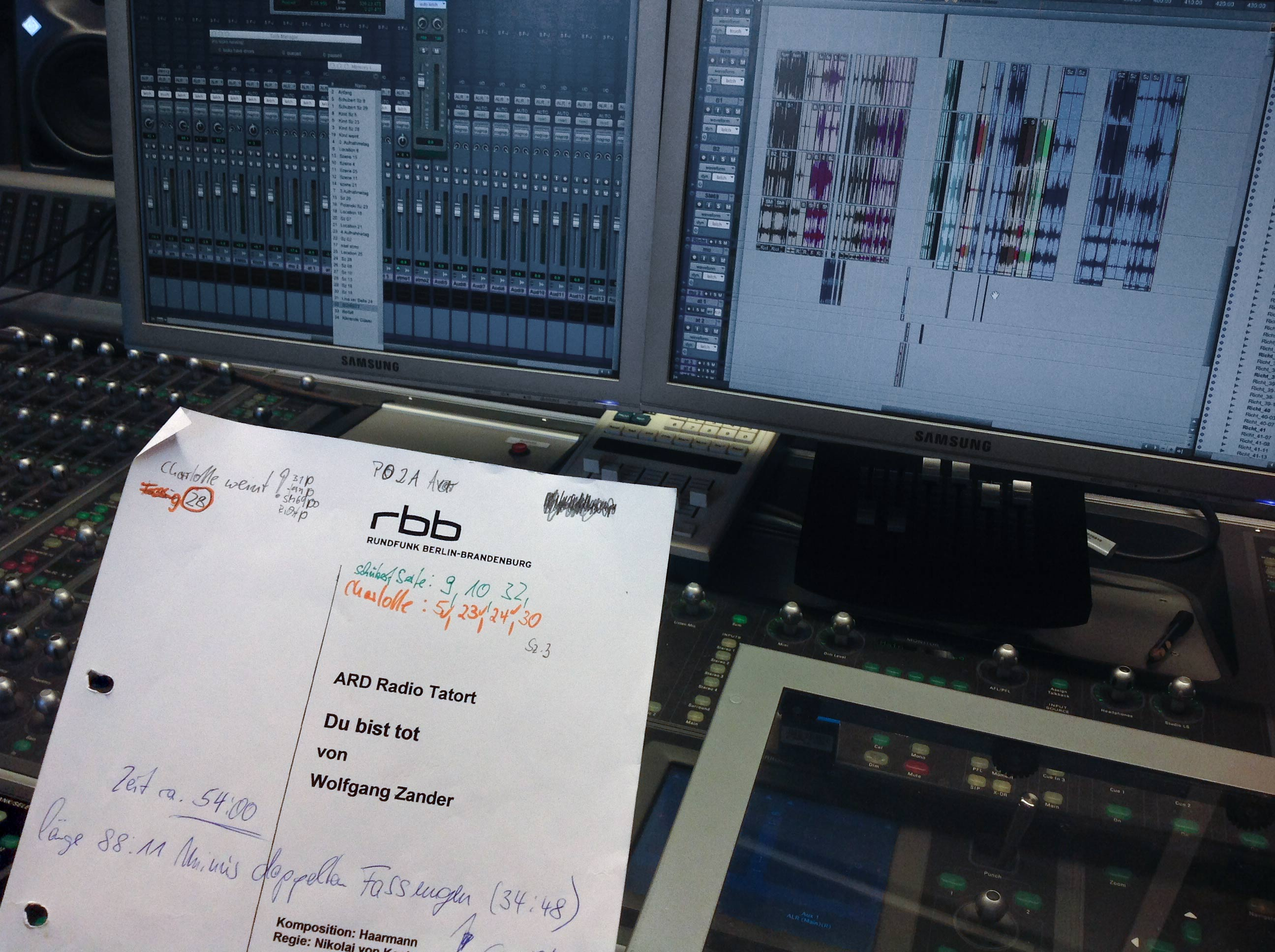 Radio studio Berlin: Production of a crime radio play in the series "Radio Tatort", 2013.